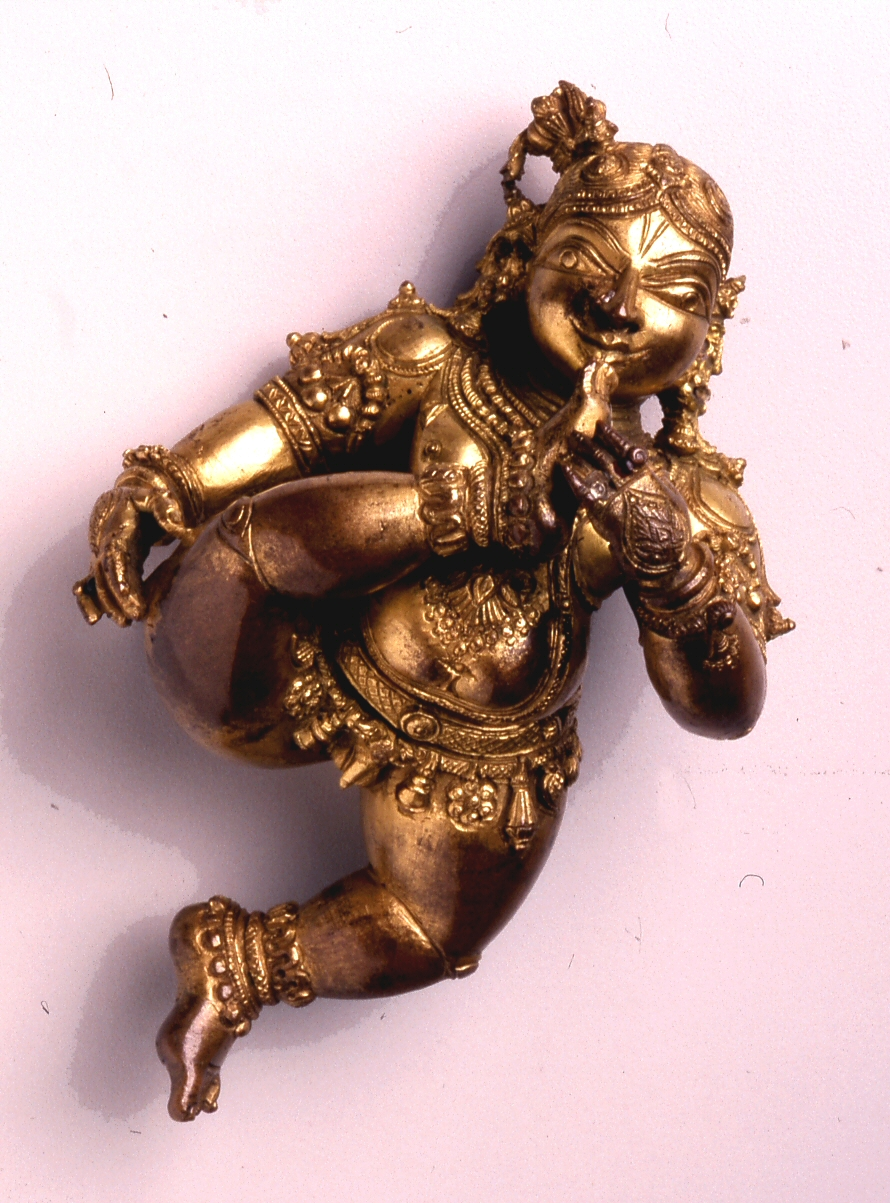 Here, Krishna is both a playful child and a substitute for Vishnu. In a vision, a sage saw Krishna lying on a banyan leaf upon the cosmic ocean, recalling the reclining Vishnu in the span between world periods. Bronzes such as this would be grouped with other images in a family shrine, where they would receive daily worship.